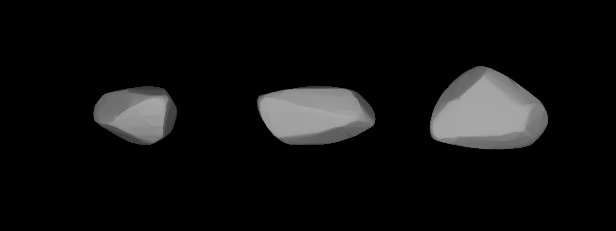 3D convex shape model of 825 Tanina, computed using light curve inversion techniques. J. Hanuš, J. Ďurech, M. Brož, B. D. Warner (June 2011). "A study of asteroid pole-latitude distribution based on an extended set of shape models derived by the lightcurve inversion method". Astronomy and Astrophysics 530: A134. ISSN 0004-6361. arXiv